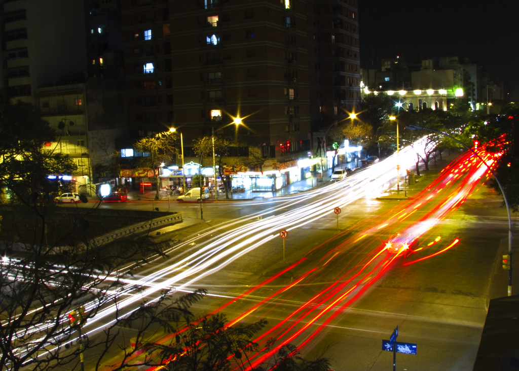 Long exposure photo. Taken from the corner of San Juan boulevard and La Cañada (Cañada glen). Cordoba, Argentina.